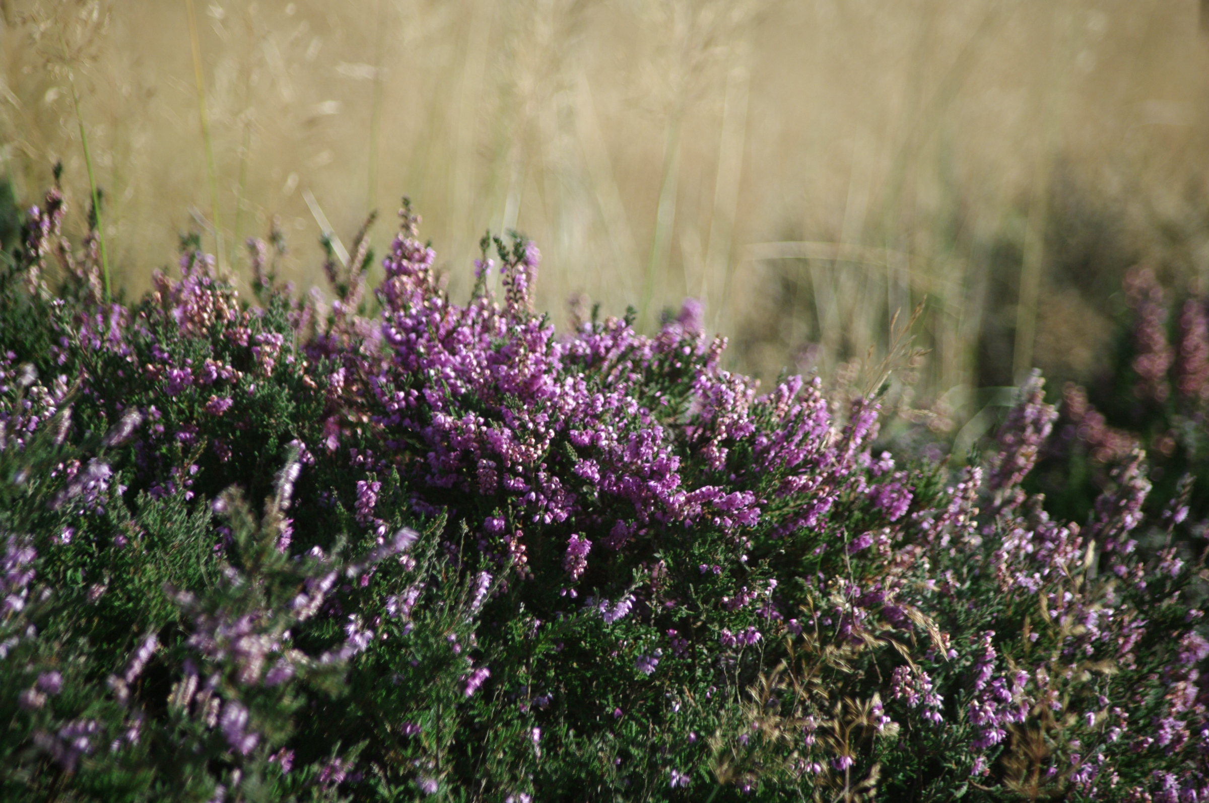 Heather at the Hole of Horcum, North York Moors